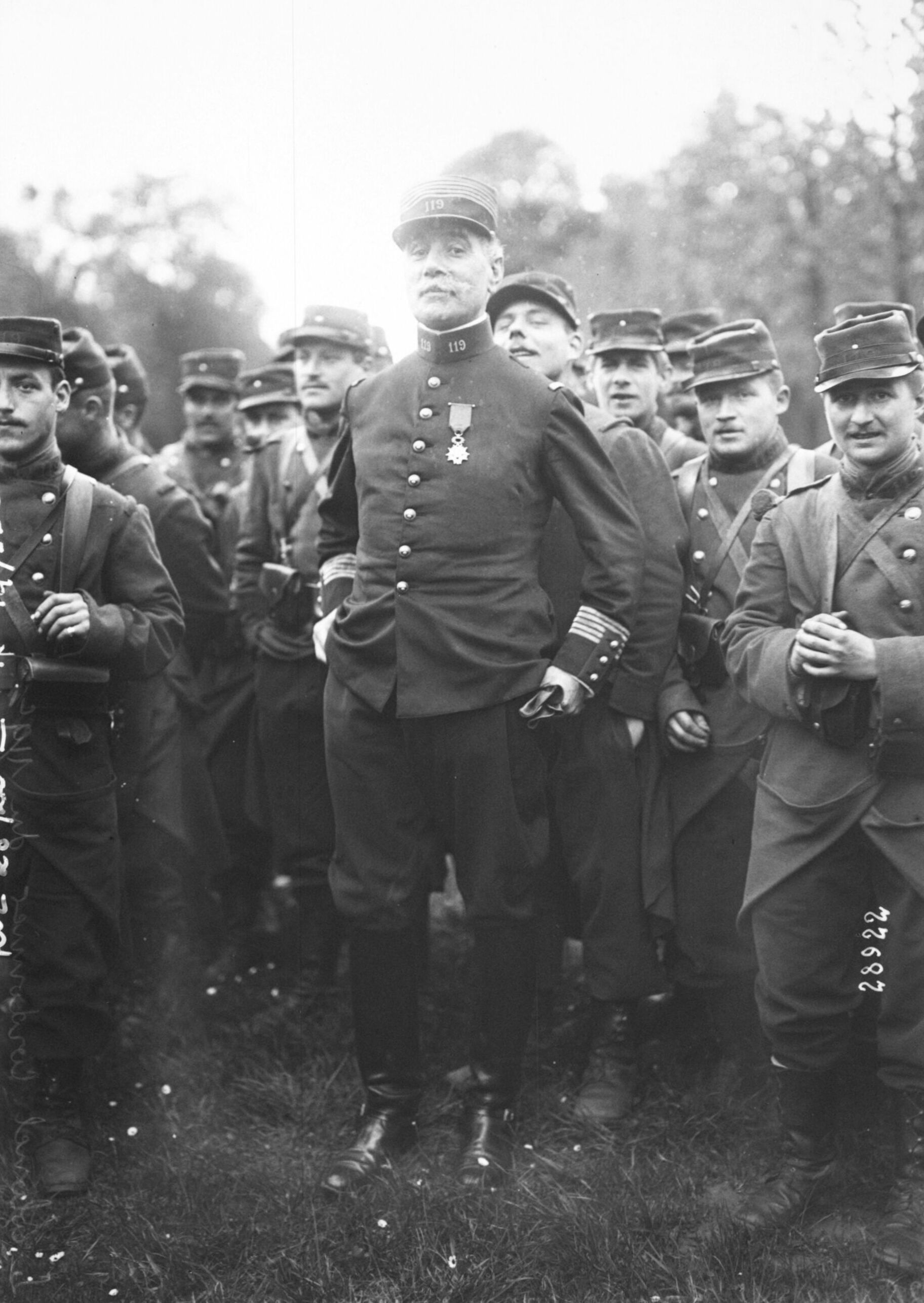 25-4-13, Saint-Cloud, cross country militaire, le colonel Cordonnier du 119e [régiment d'infanterie] : [photographie de presse] / [Agence Rol] 1 photogr. nég. sur verre ; 13 x 18 cm (sup.)